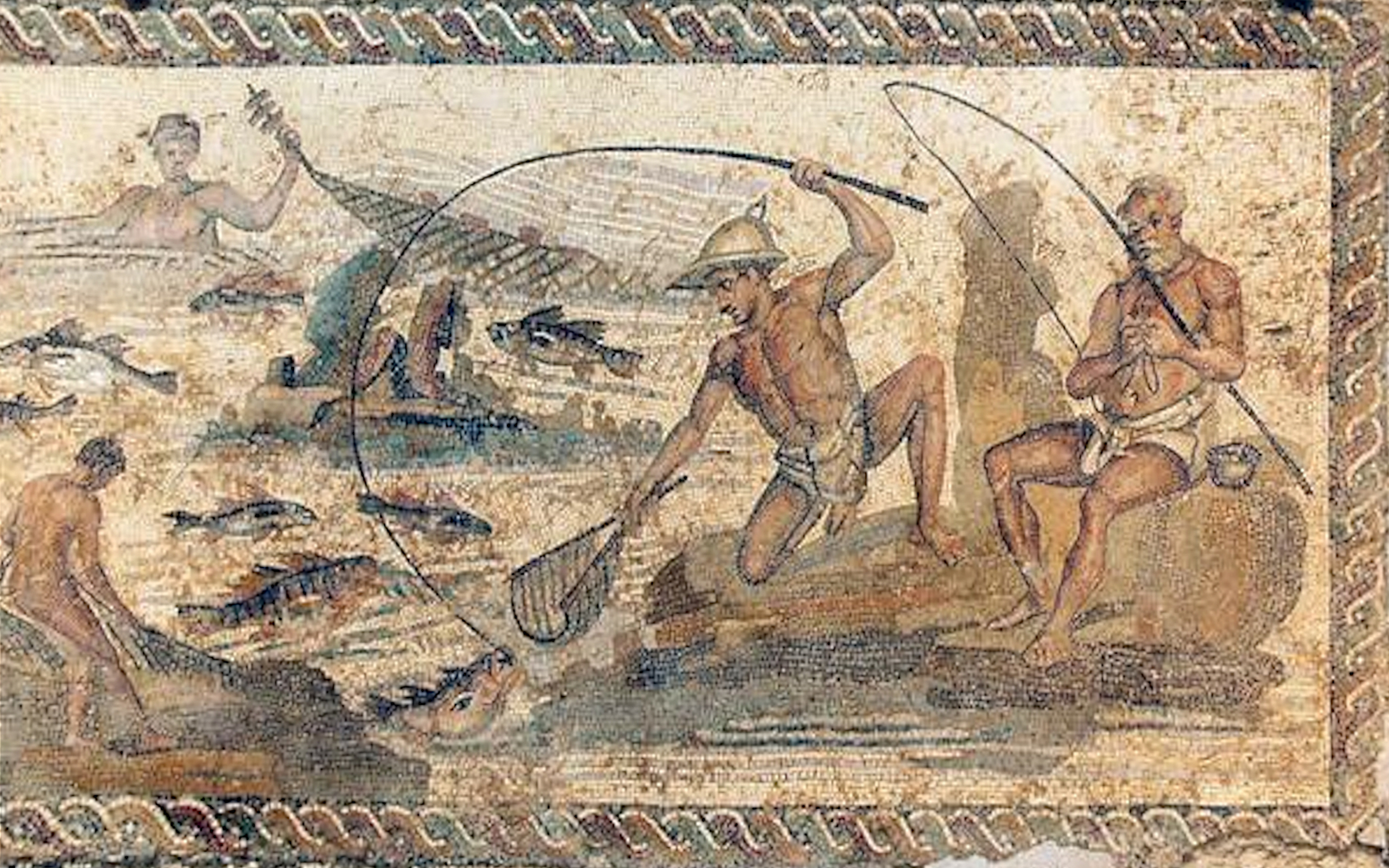 Villa of the Nile Mosaic, fishermen, Lepcis Magna, Tripoli National Museum.